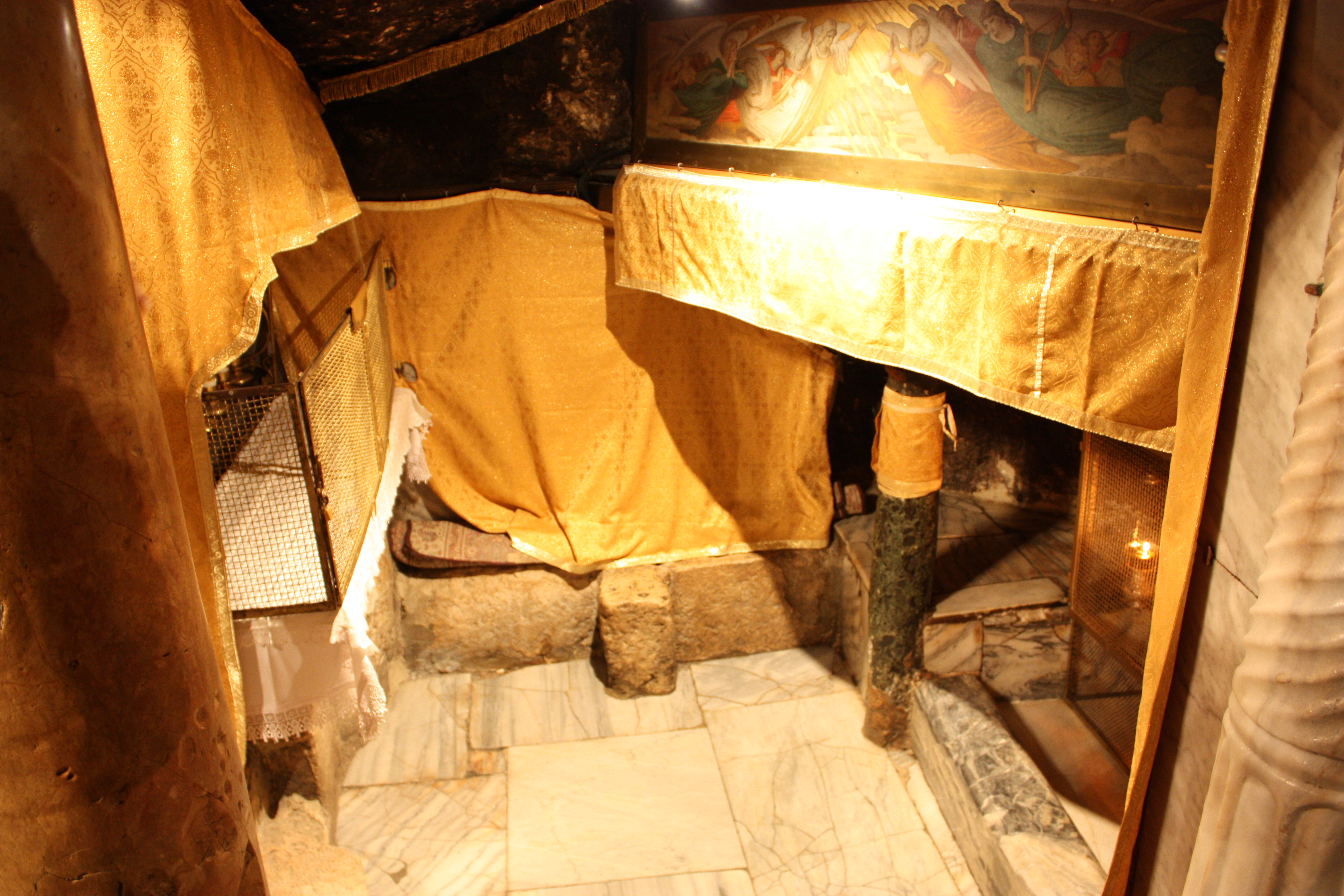 Chapel of the Manger in the Grotto of the Nativity.